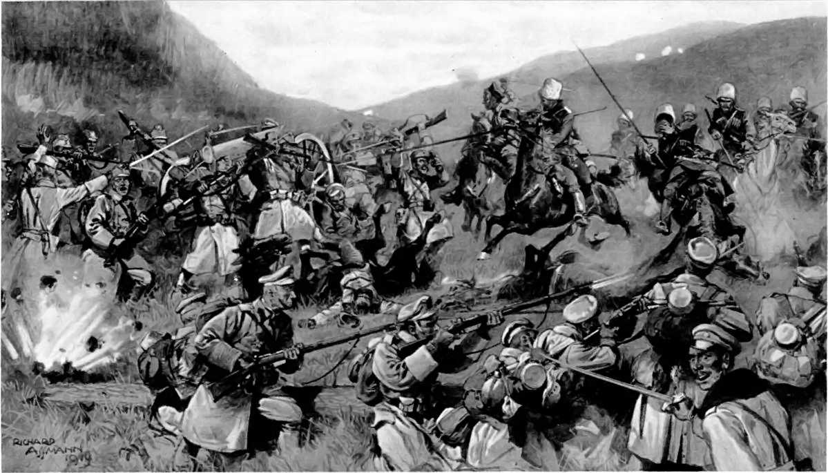 An engagement in Hungary between an Austro-Hungarian force and a body of Russian cavalry who had crossed the Carpathians from Galicia.